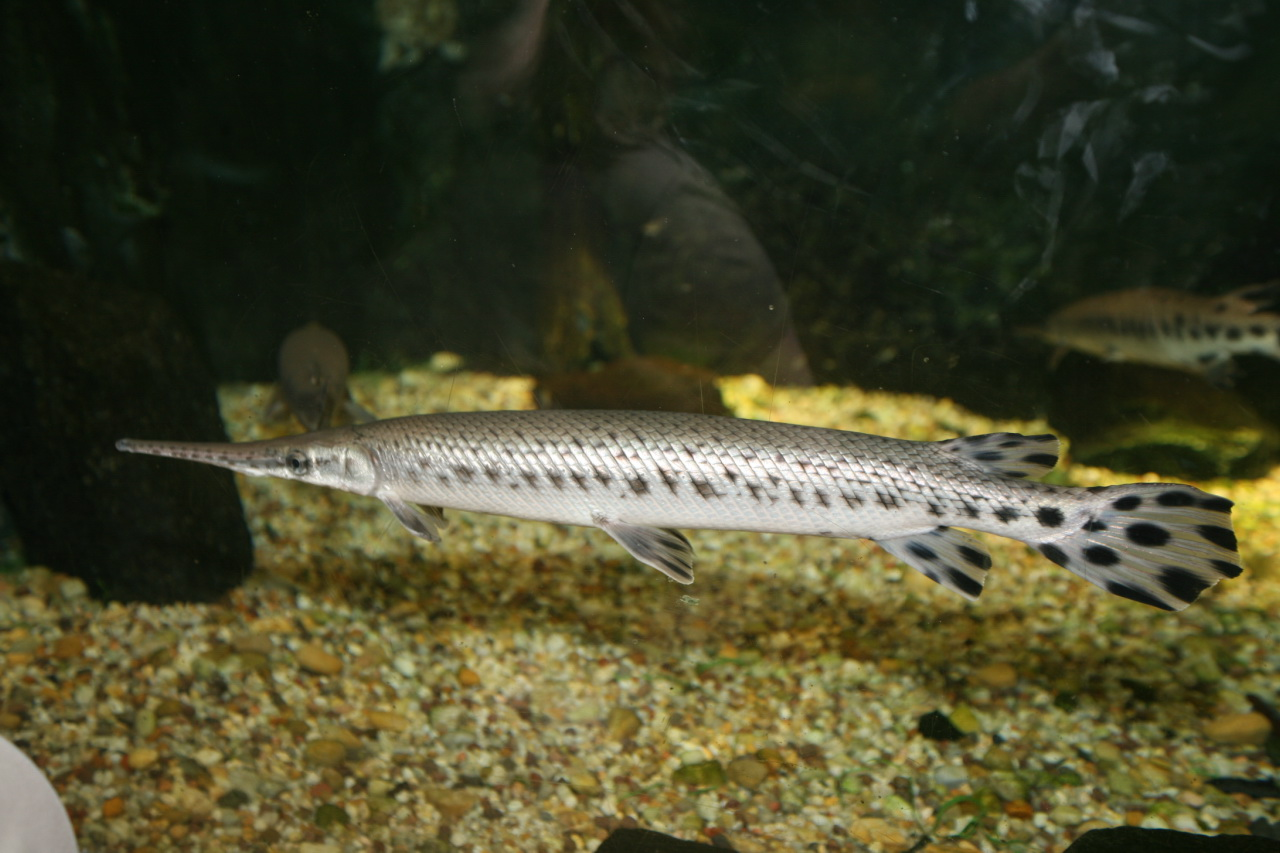 The longnose gar ranges in length from 60–100 cm (24–40 inches) and weighs 0.5–3.5 kg (1–7 pounds); FishBase reports a maximum size of 2 m. Avg. life span is 17- 20 years. The snout is elongated into a narrow beak containing many large teeth. The gar has a long, cylindrical (fusiform) body covered with diamond-shape (ganoid) scales.